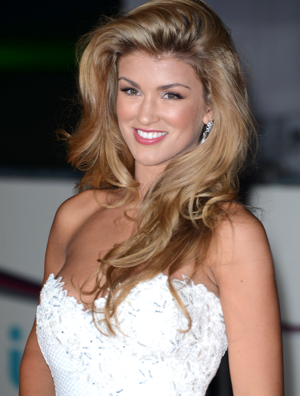 Amy Willerton attending The Sun Military Awards on December 11, 2013.